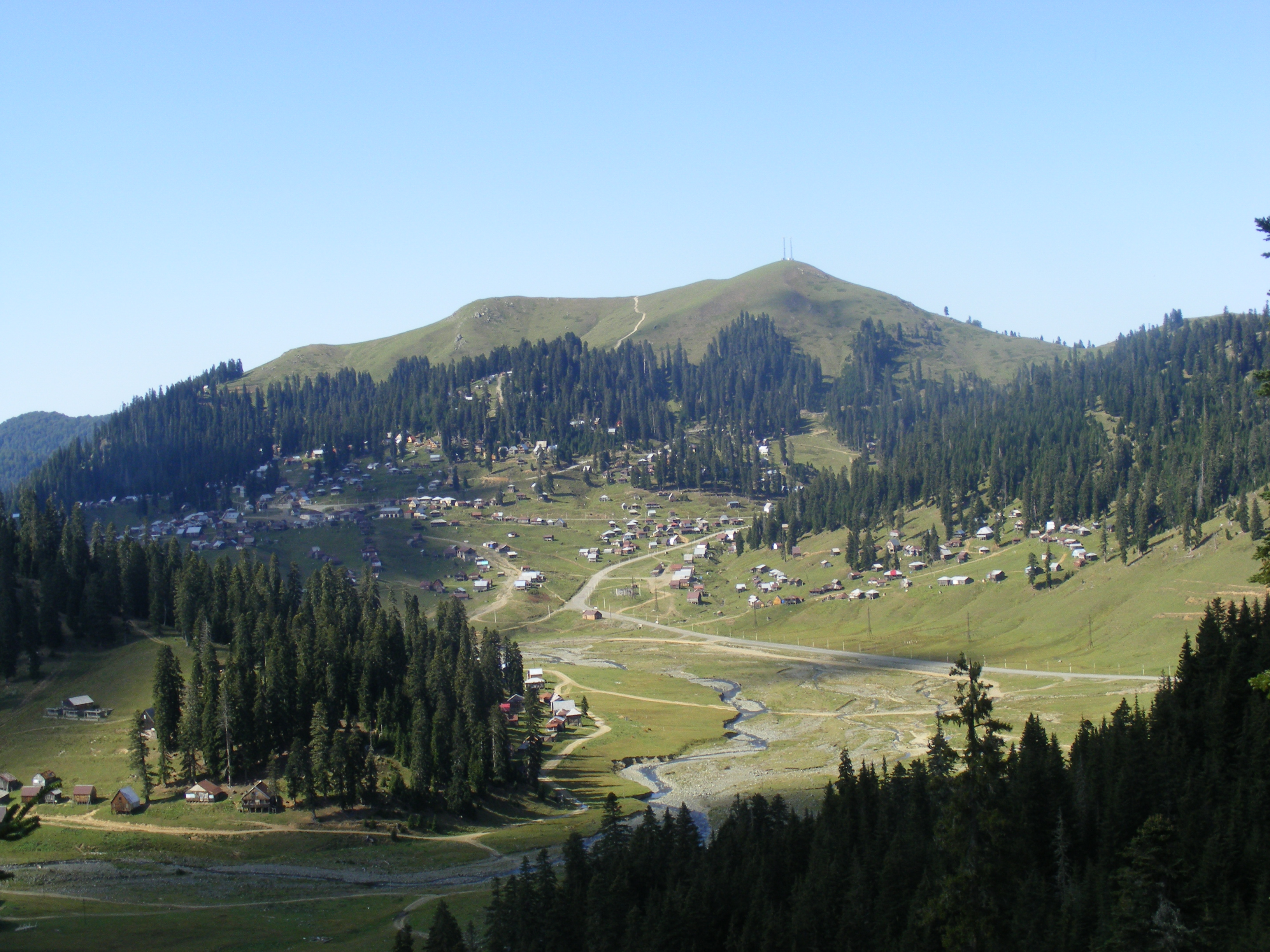 Bakhmaro